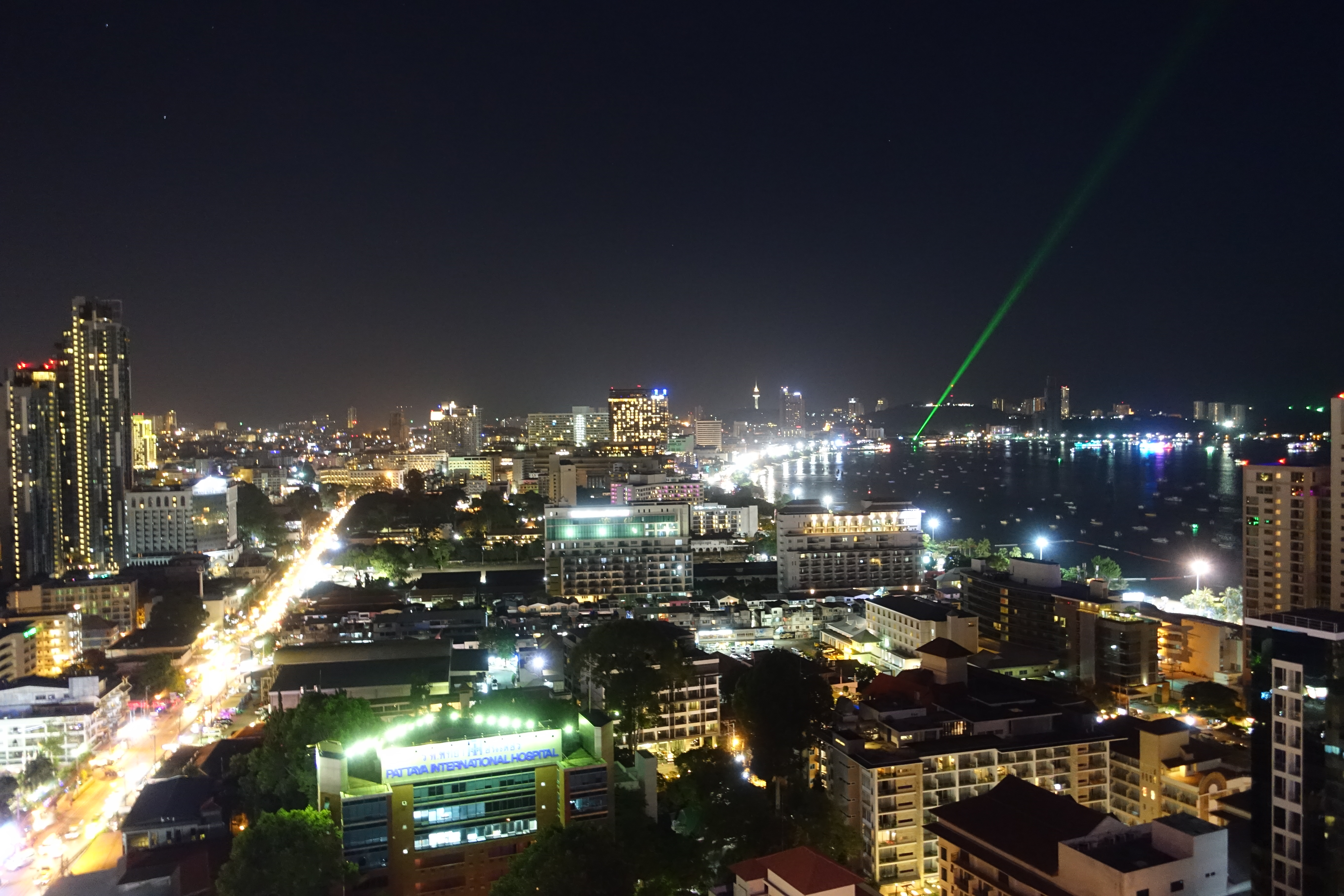 Central Pattaya, Thailand at night in 2017